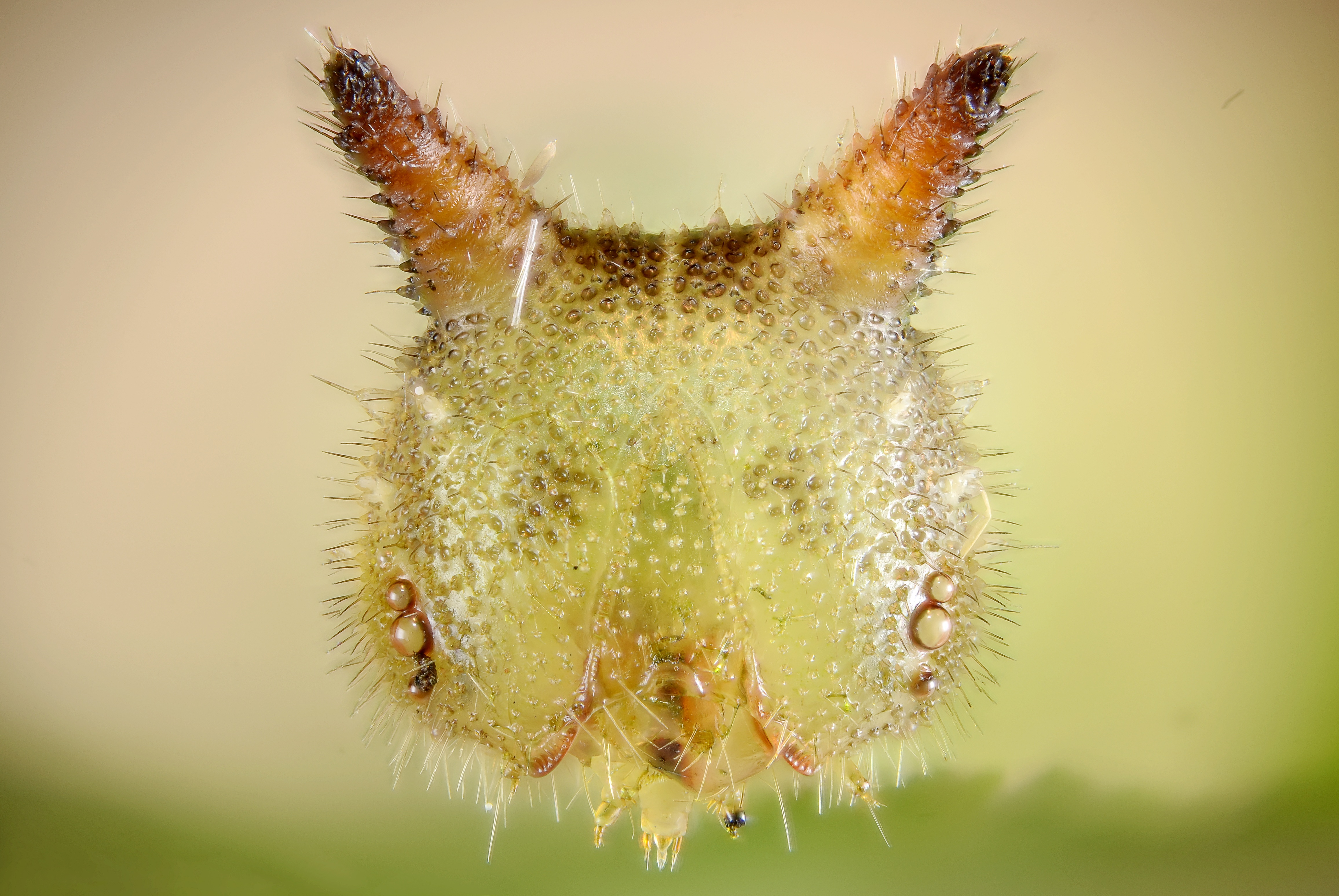 Head of the the caterpillar of the African butterfly Bicyclus anynana (frontal view). Scale : head capsel width = 5.5 mm Technical settings : - focus stack of 46 images - microscope objective (Nikon achromatic 10x 160/0.25) directly on the body (30 mm extension from the adapter)